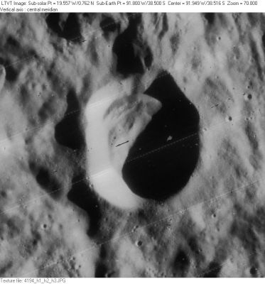 LO-IV-194H